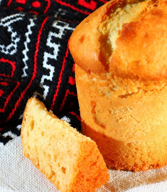 Bread in Ukrainian embroidered towel